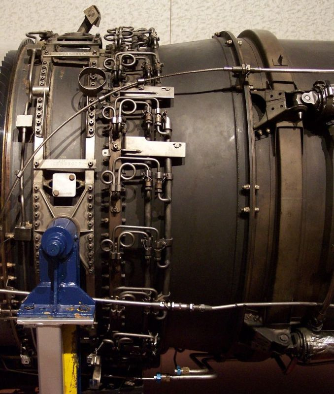 Afterburner GE J79